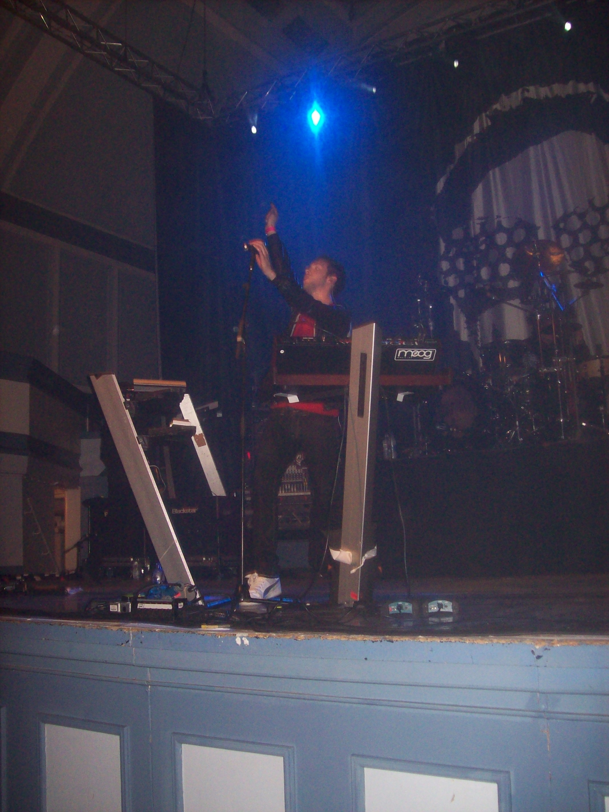 Calvin Harris in Kilmarnock, Scotland 2009.